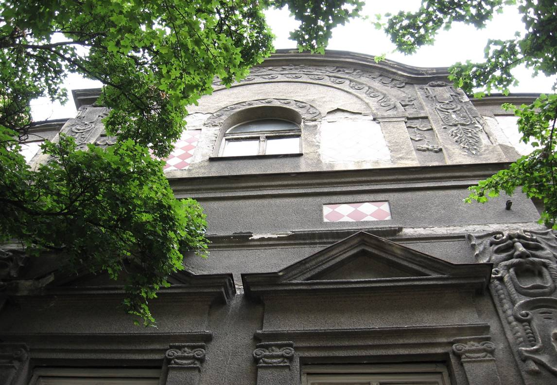 House of Laza Lazarevic in Belgrade.